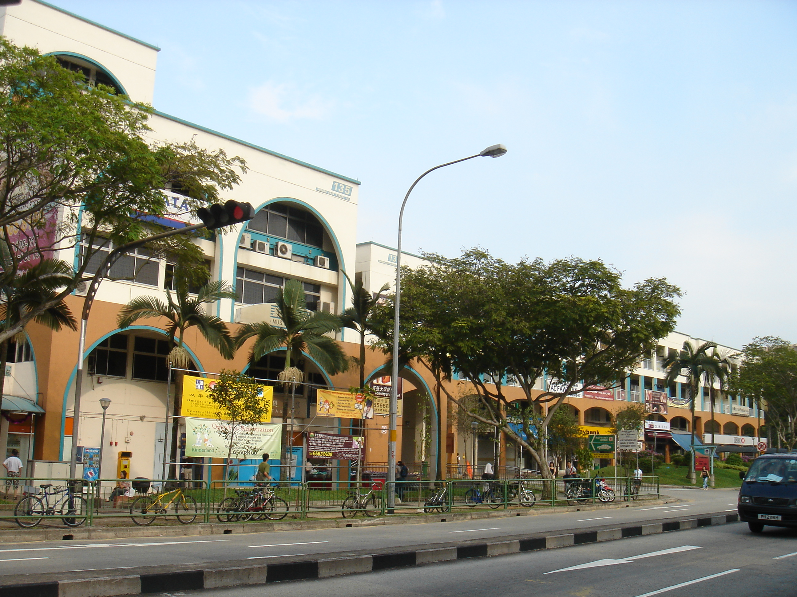 Shophouses at Jurong East Town, near the Jurong East MRT Station.